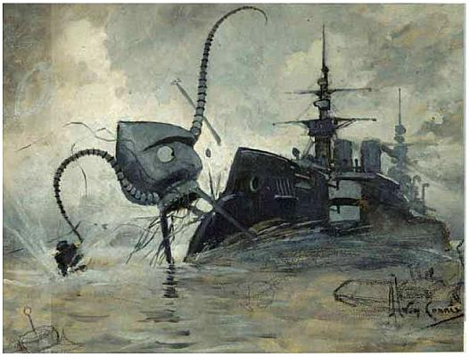 for the novel The War of the Worlds, showing a Martian fighting-machine battling with the warship Thunder Child.